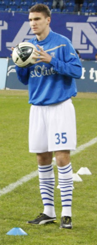 Marcin Kaminski, player of Lech Poznan